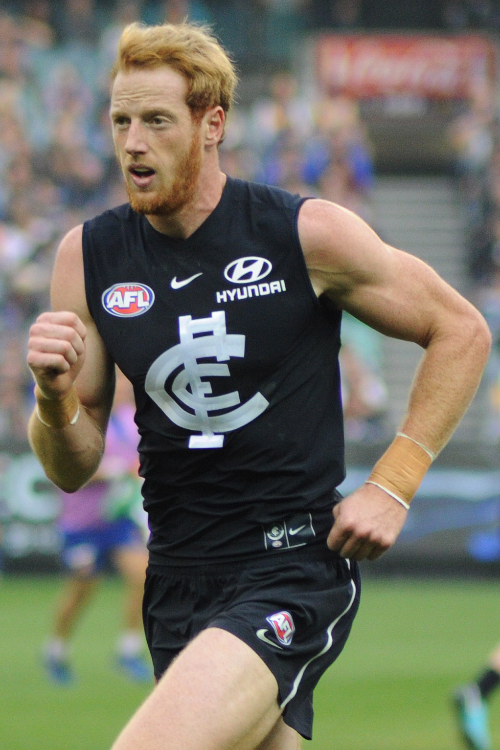 Andrew Phillips during the AFL round five match between Carlton and West Coast on 21 April 2018 at the Melbourne Cricket Ground in Melbourne, Victoria.